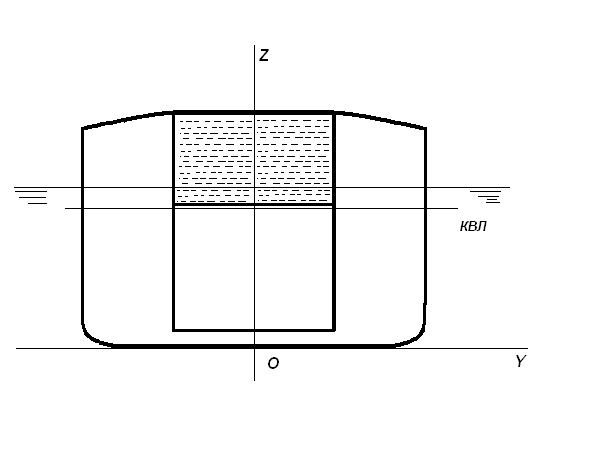 Ship flooding. Typical case 1